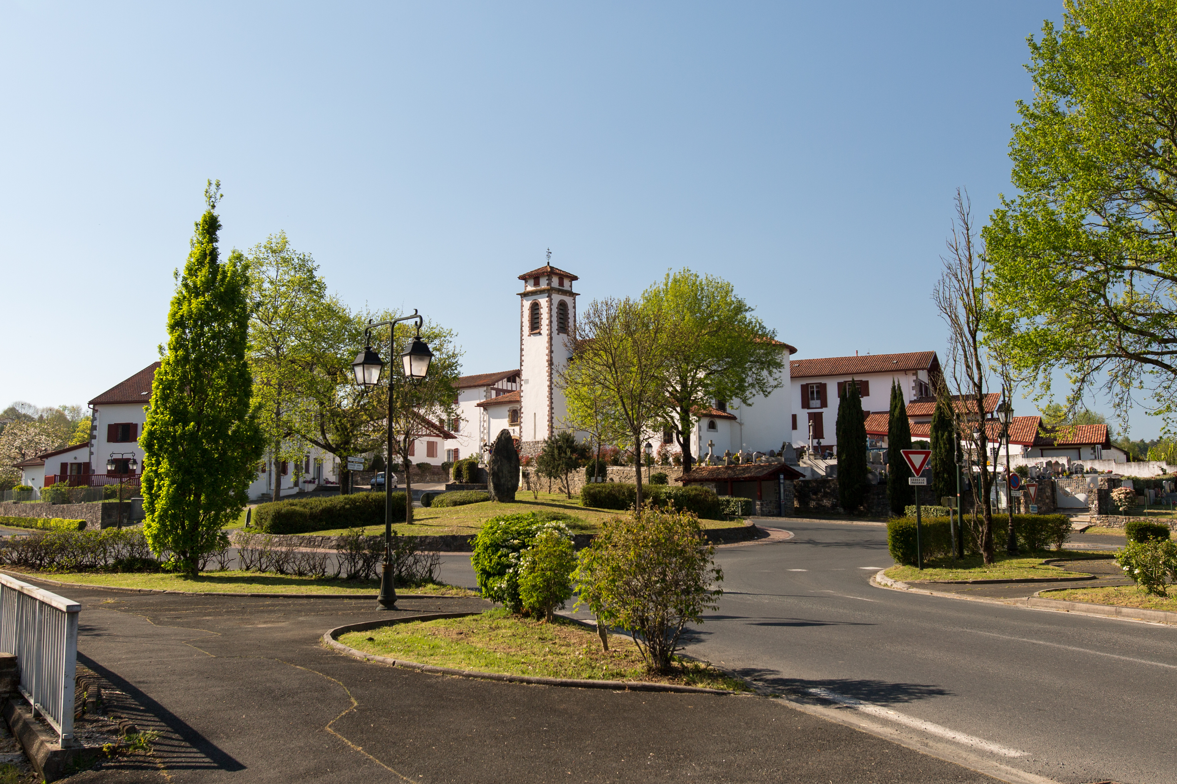 Entrée du village